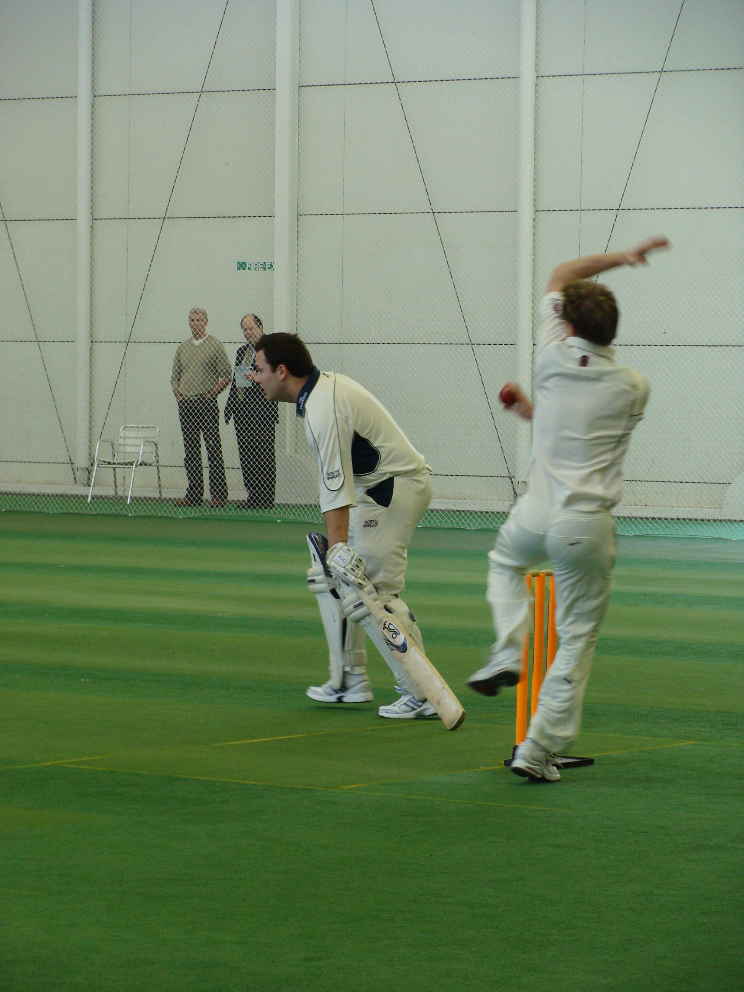 A player goes to bowl at a 2009 indoor cricket match at Lord's.